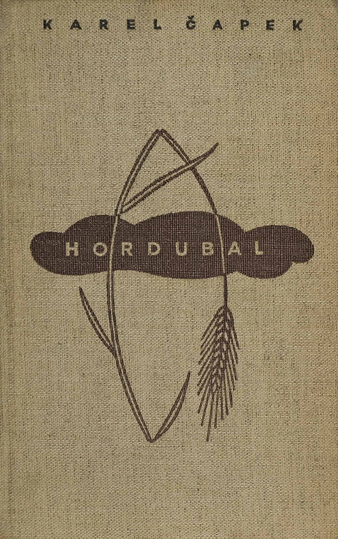 Cover page of novel Hordubal by Czech writer Karel Čapek, published by Fr. Borový in 1939 (12th edition)